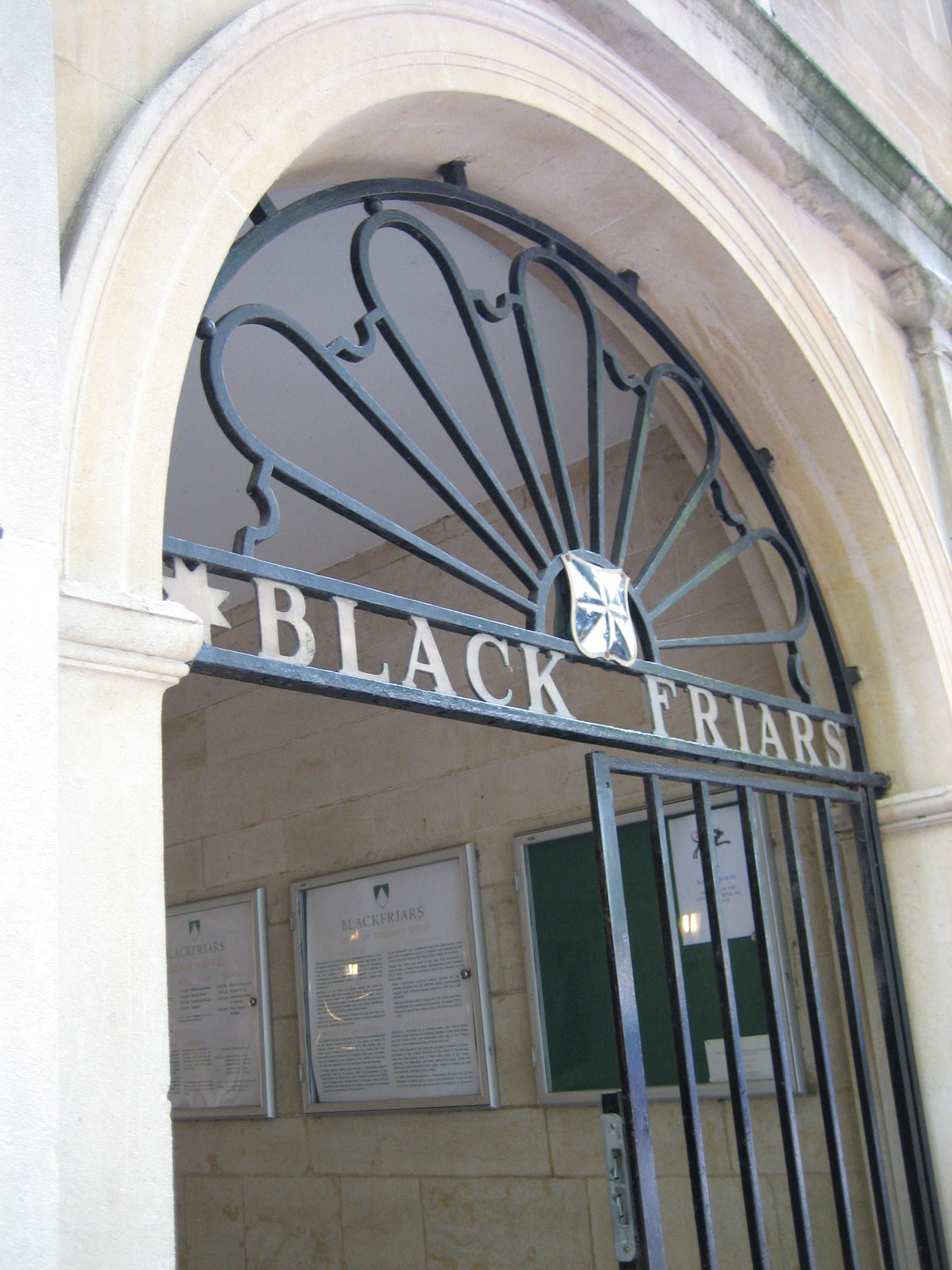 Blackfriars College entrance